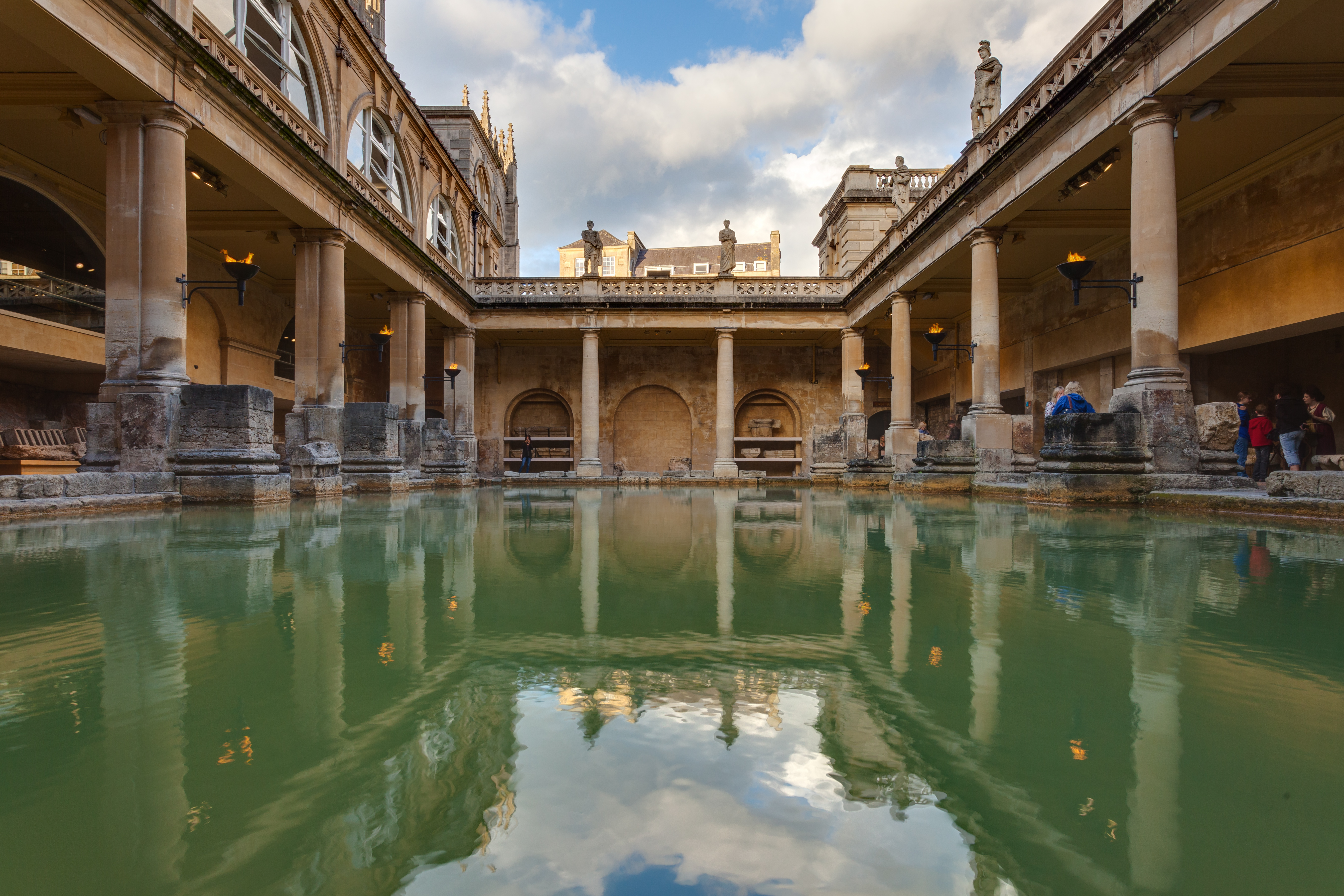 Roman Baths, Bath, England